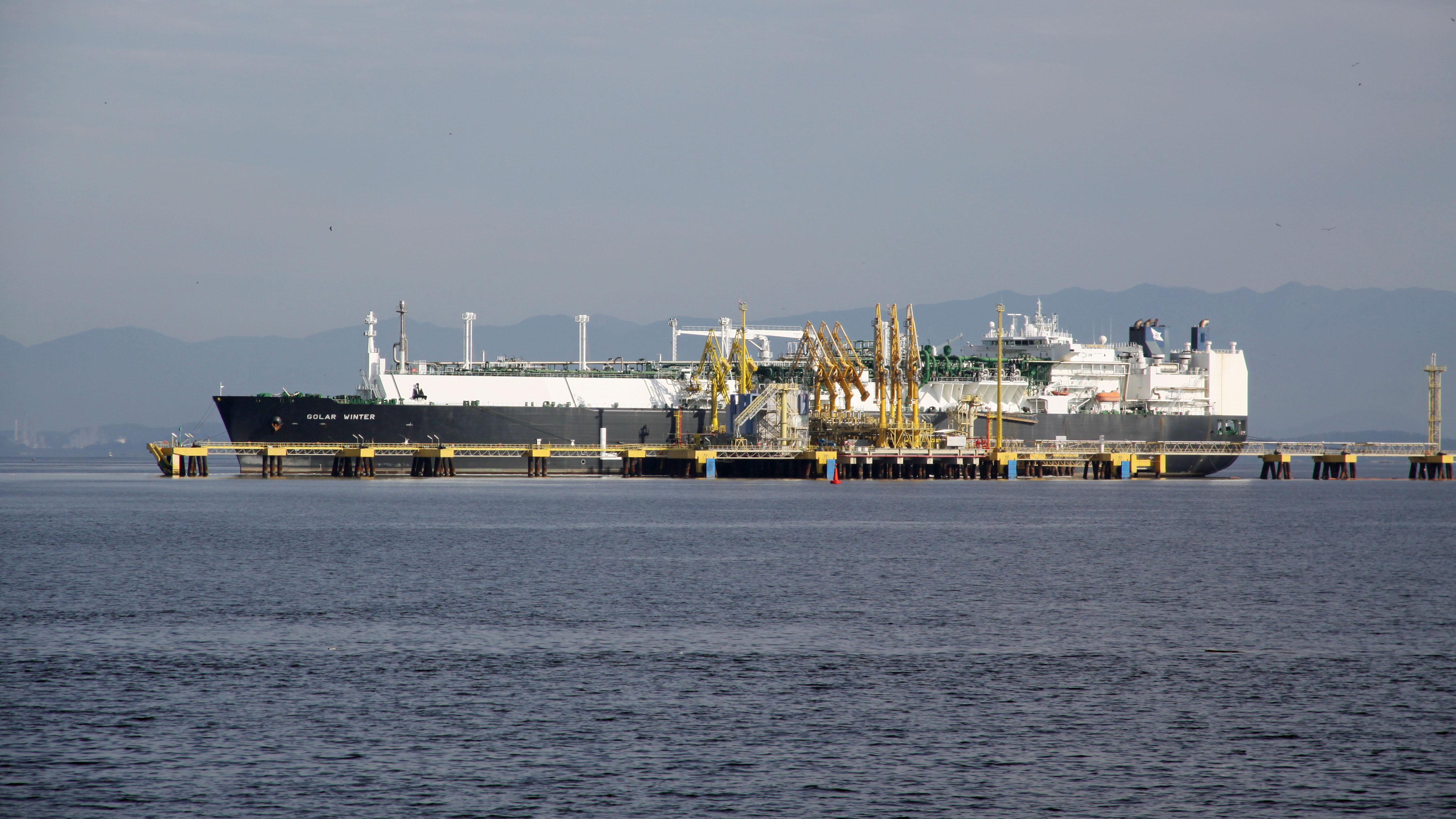 Golar Winter - Floating storage/production